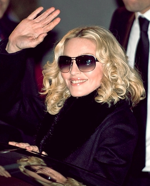 Madonna leaving the press conference for "Filth And Wisdom" at the Hyatt Hotel, Potsdamer Platz, Berlin.